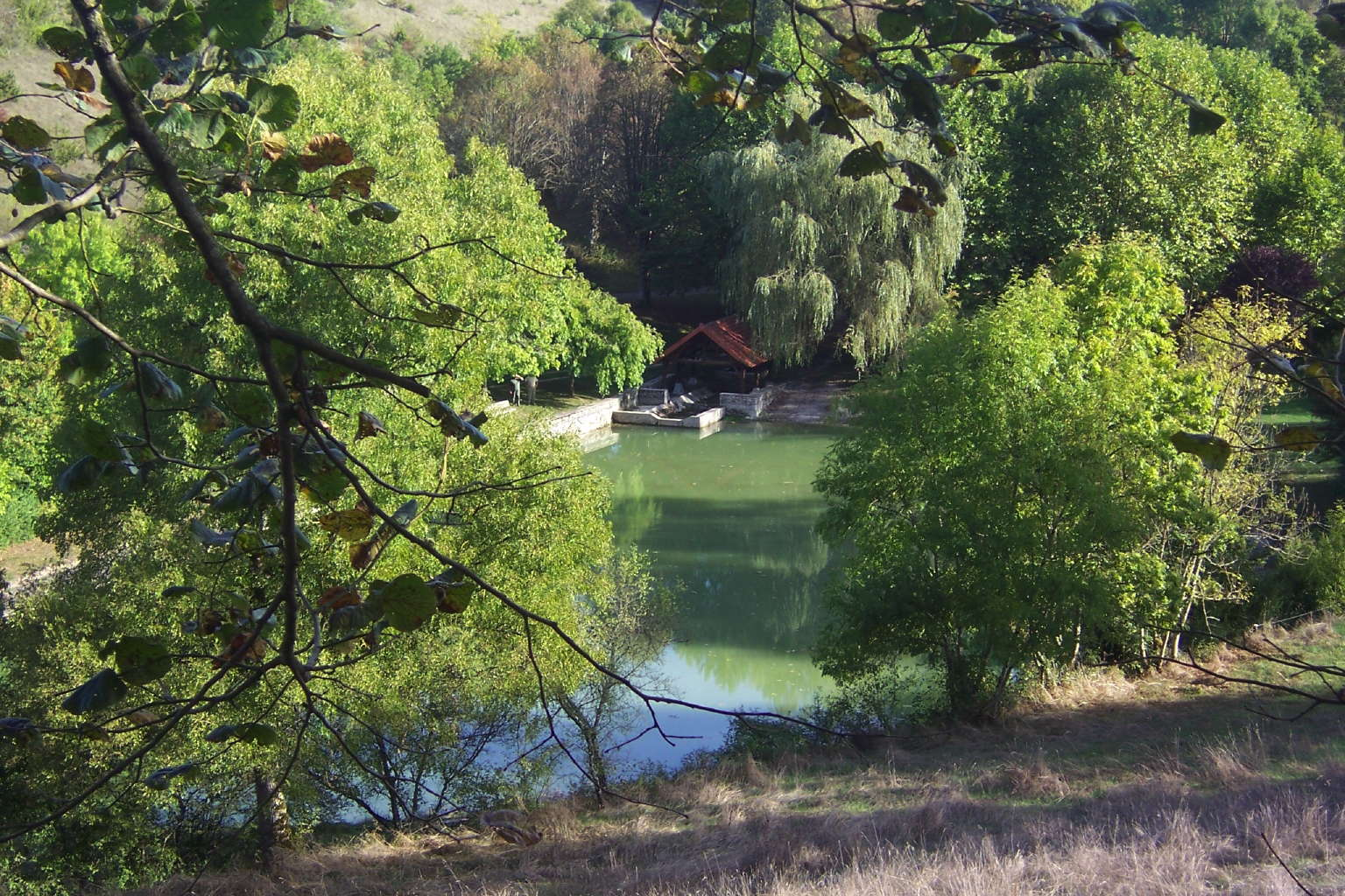 Picture of pond 'Les Fontaines" of town Montfaucon in Lot, France.